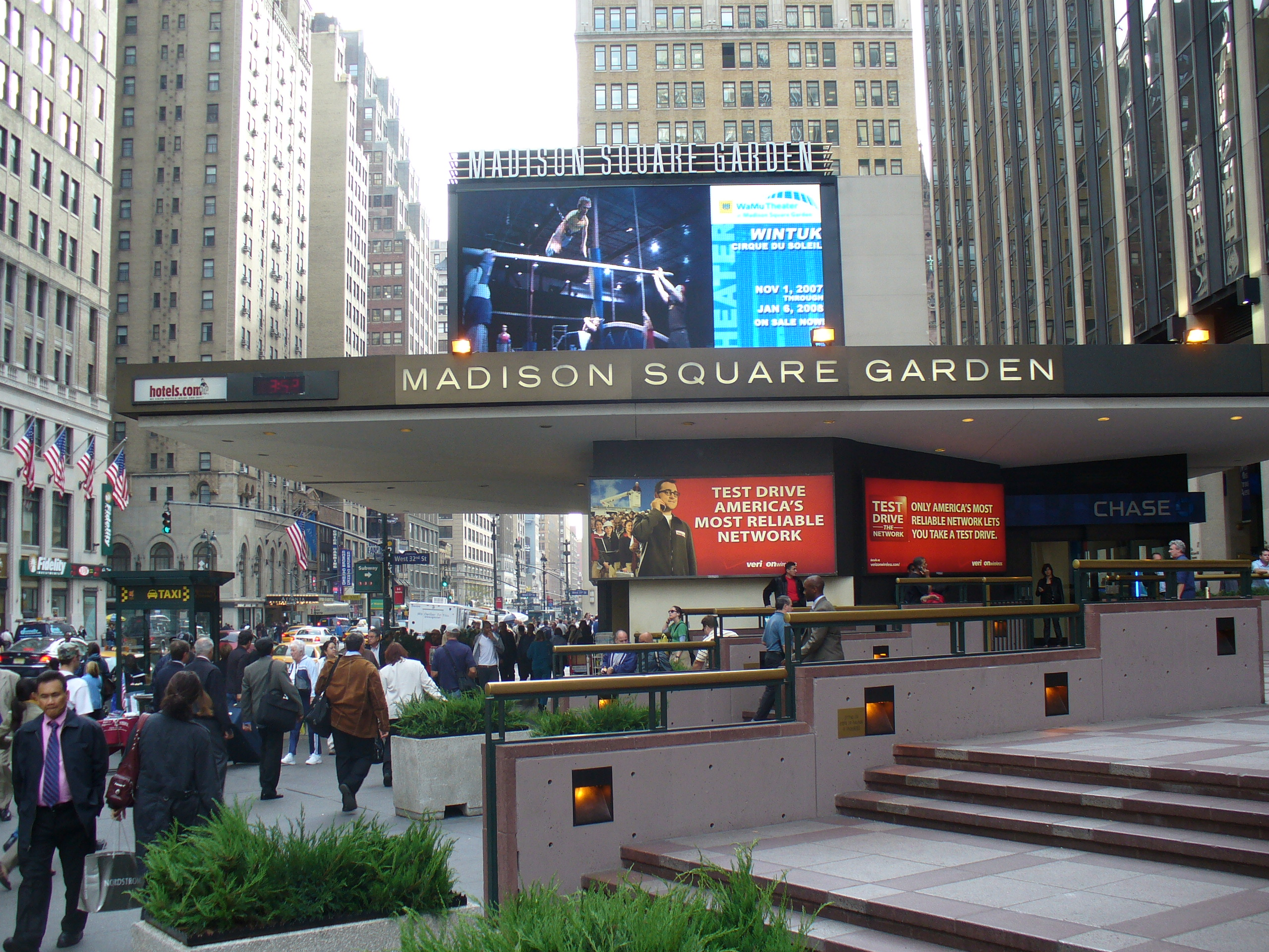 The world famous Madison Square Garden. Mid October 2007.Christina Olson Photo